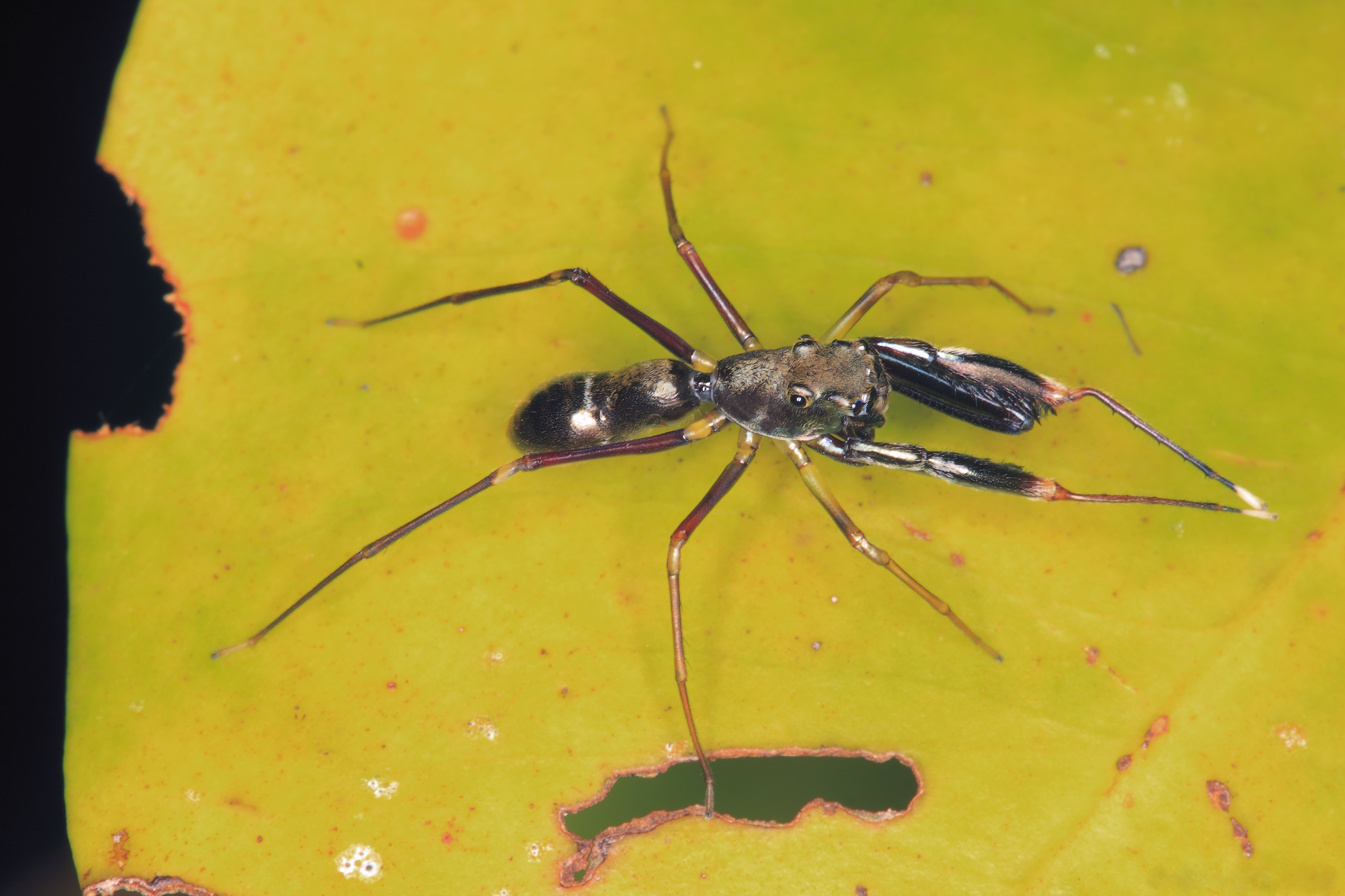 Phylum: Arthropoda LATREILLE, 1829 (arthropods, Gliederfüßer) Subphylum: Chelicerata Class: Arachnida CUVIER, 1812 (arachnids, Spinnentiere) Subclass: Micrura Infraclass: Megoperculata Order: Araneae CLERCK, 1757 (spiders, Webspinnen) Suborder: Araneomorphae (Echte Webspinnen) Superfamily: Salticoidea Family:Salticidae BLACKWALL, 1841 (jumping spiders, Springspinnen) Subfamily: Dioleniae (or Agoriinae?) Genus: Diolenius THORELL, 1870 Diolenius phrynoides WALCKENAER, 1837 , ♂ [det. D.E. Hill, 2011, based on photos] Indonesia, W-Papua, Sorong, Raja Ampat: Kri Island (vic. Pulau Mansuar), 60m asl., 30.12.2010 (IMG_8231)